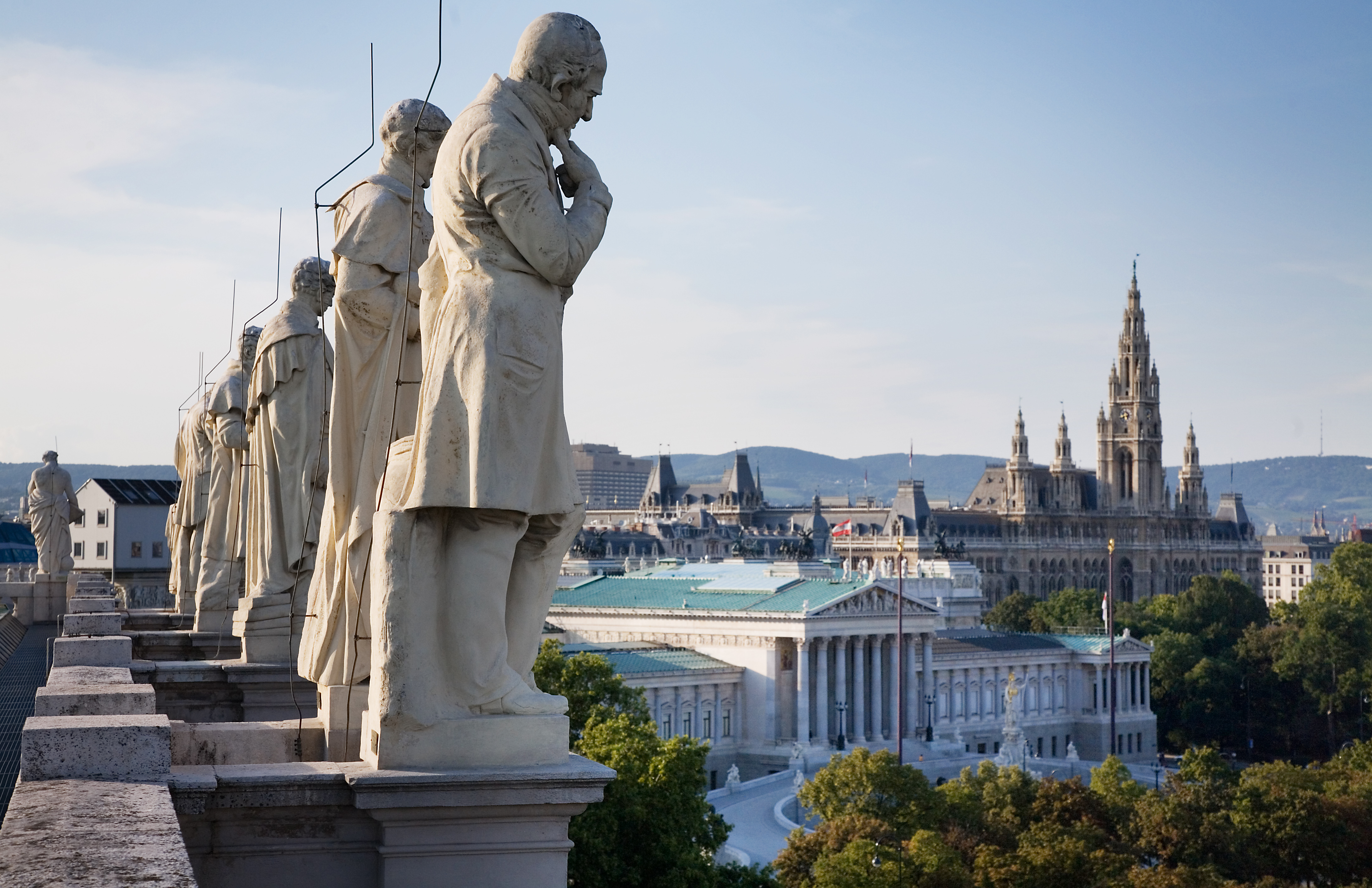 Statues on top of the Naturhistorisches Museum (Museum of Natural History), Vienna, Austria